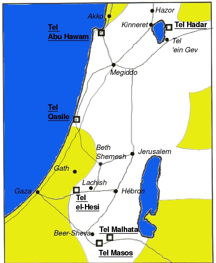 Map of the united monarchy according to tripartite pilared building